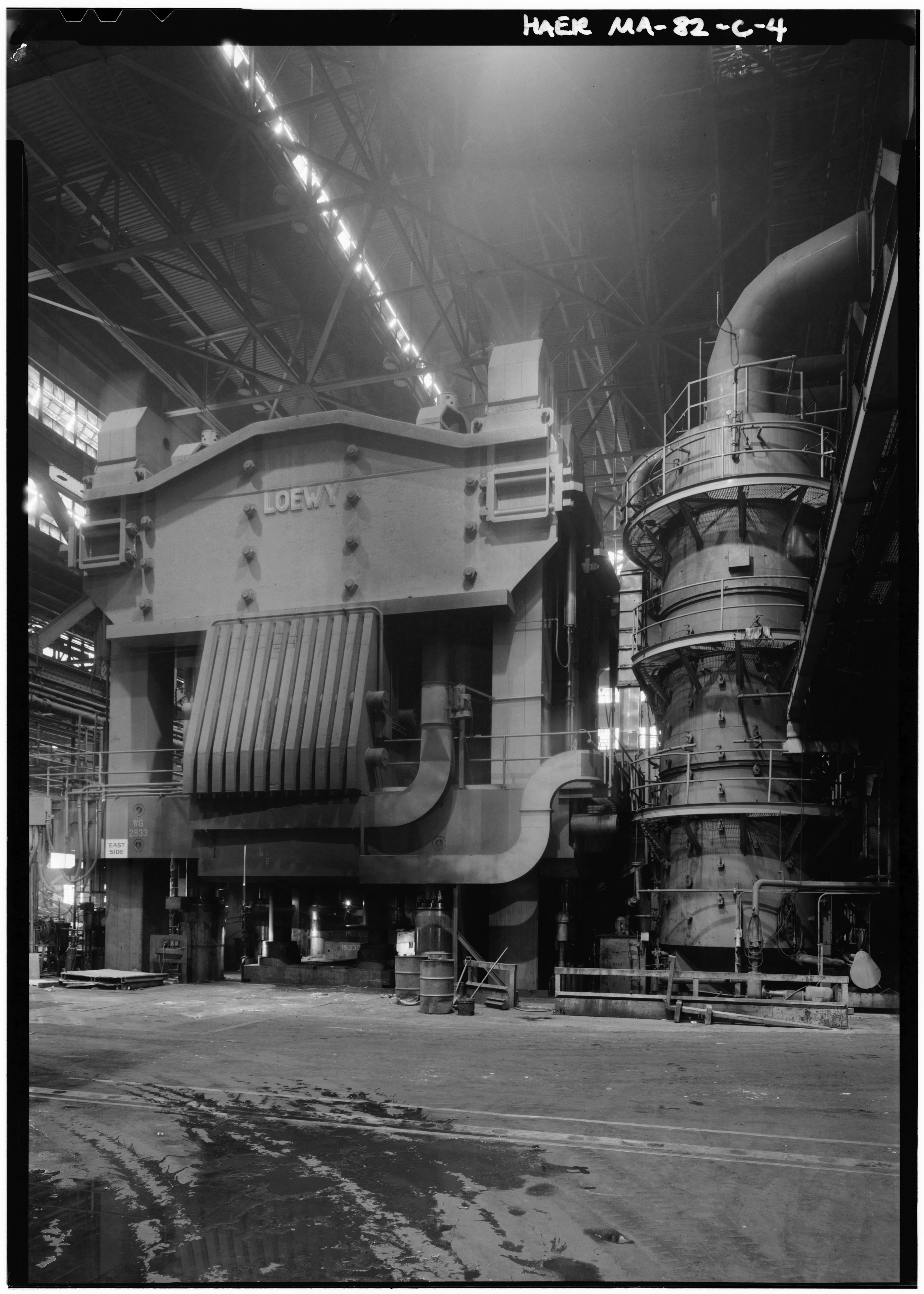 Located at Wyman-Gordon, Grafton, Massachusetts The Wyman-Gordon Forging Press, along with a similar press owned by the Alcoa Company of Cleveland, Ohio, represents the culmination of many years' attempts to build heavy presses. Motivated by Cold War fears and the demand for new aircraft in the Korean War, the United States Air Force instituted a "Heavy Press Program" during the post-World War II years. The program aimed to create presses large enough to make magnesium parts for new aircraft designs. This press was designed and built by the Loewy Construction Company. The new manufacturing capabilities of this type of press considerably broadened the range of materials and structures available for use in aircraft. Heavy presses make it possible to forge extremely large, complex pieces essential to the structural systems of modern jet-powered aircraft. Despite its bulk, the press is a flexible production tool, allowing the manufacture of many different types of precision parts.